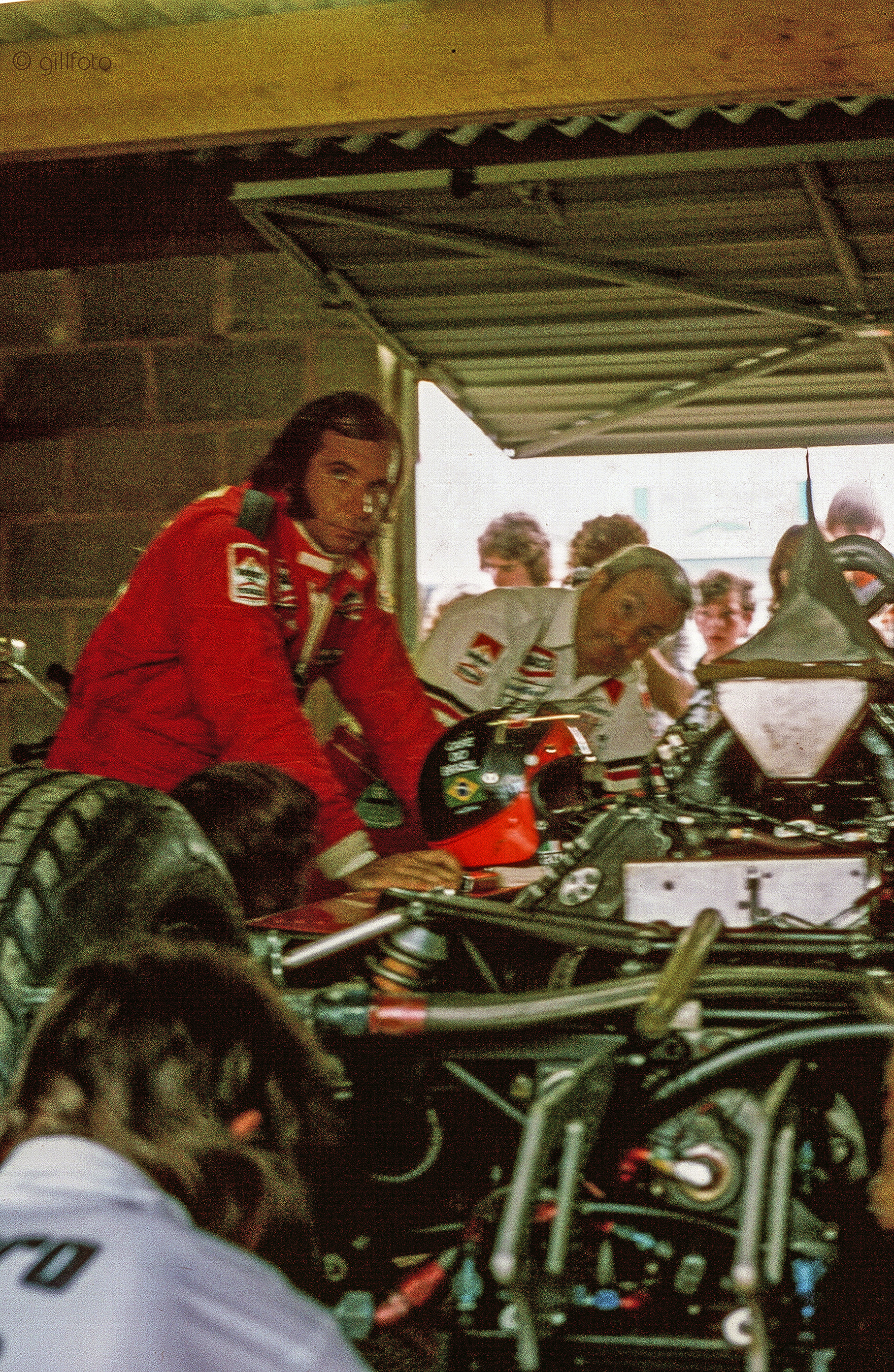 Emerson Fittipaldi and Manager Teddy Mayer of McLaren in Pit Garage at British Grand Prix, Silverstone (1975)